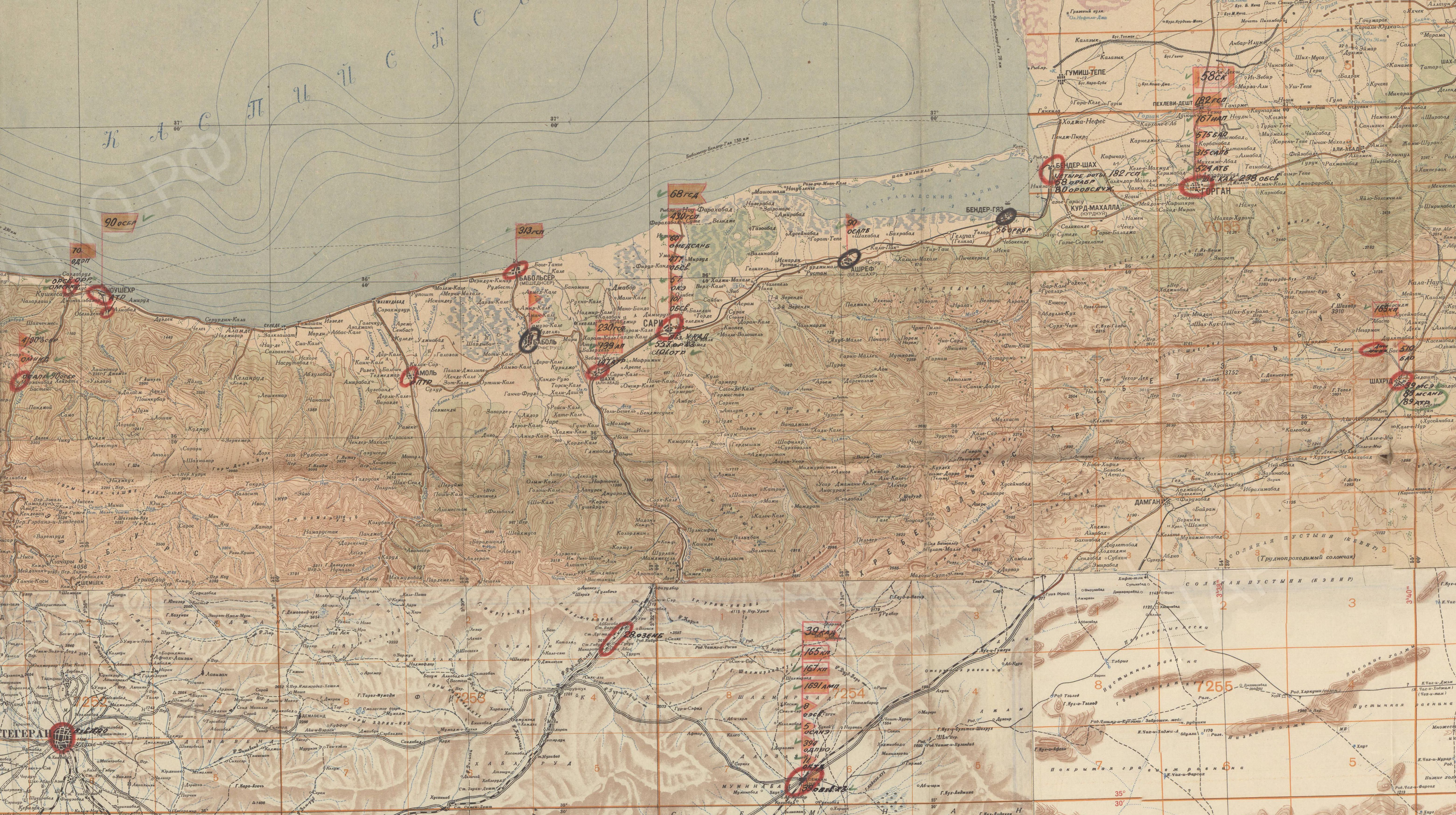 Positions of selected units of the Soviet 4th Army in Iran